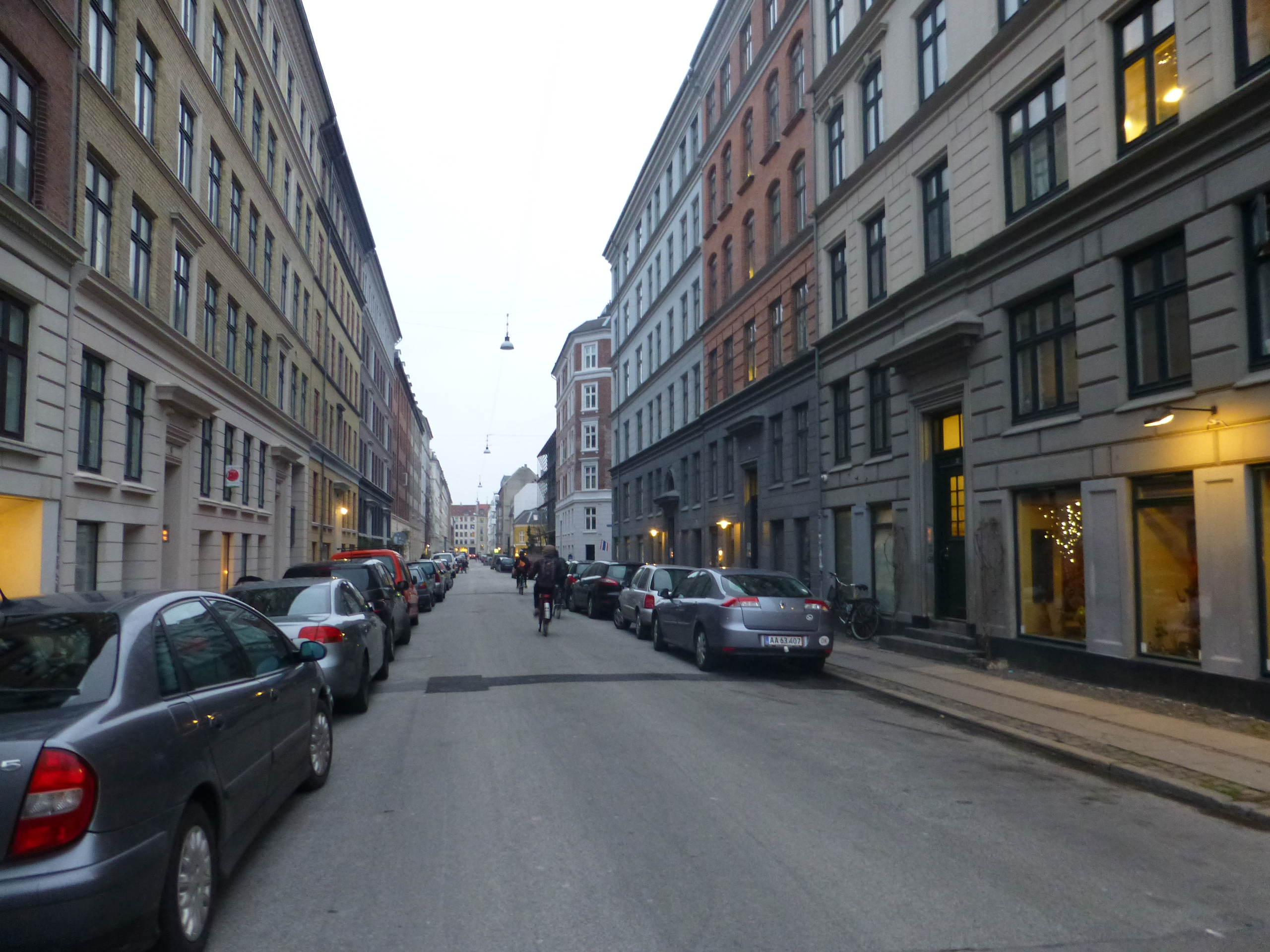 The street Eskildsgade in Vesterbro in Copenhagen.